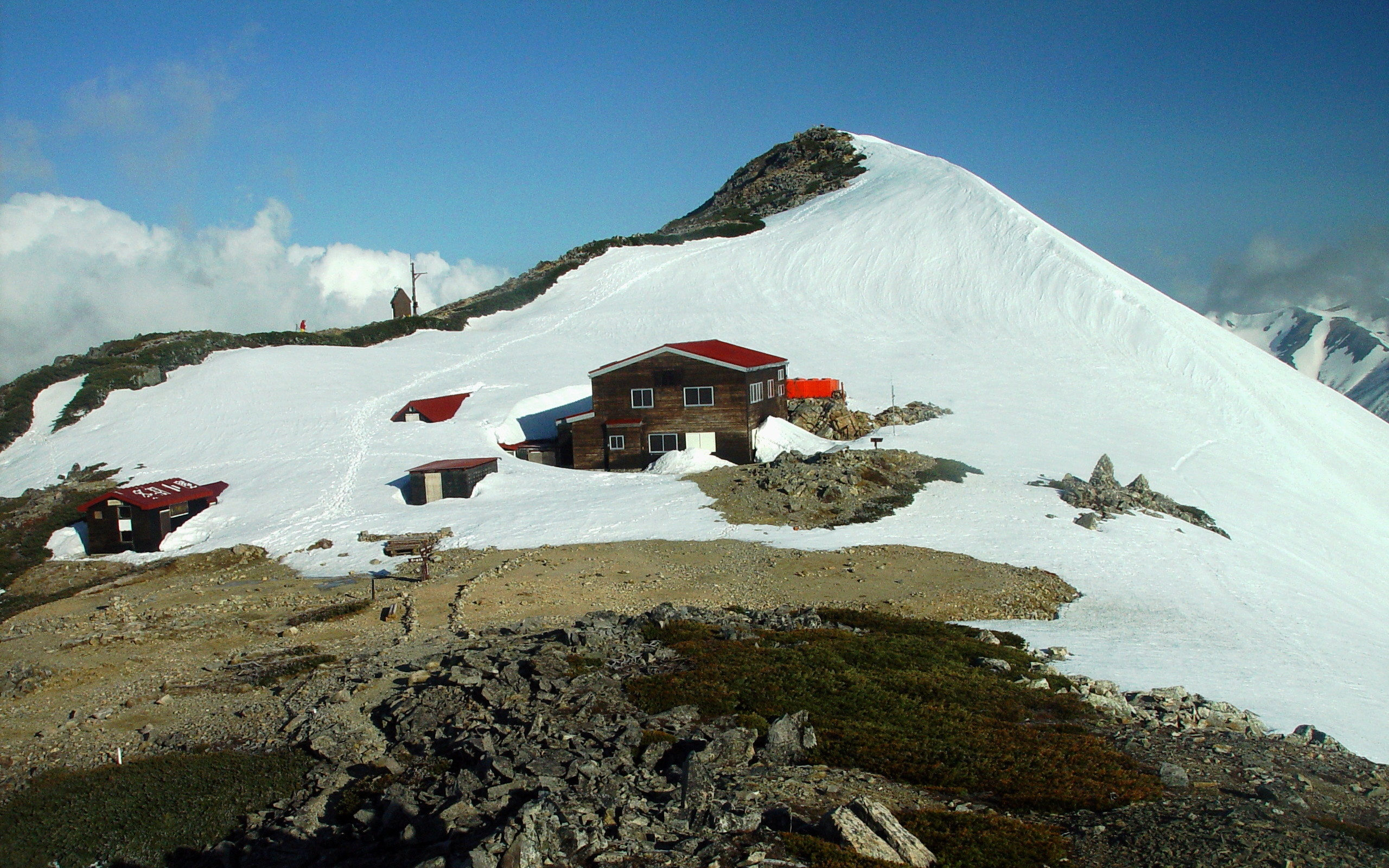 Mount Otensho and hut in Hida Mountains, Japan.